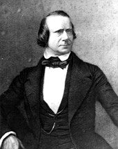 picture of Samuel S Phelps